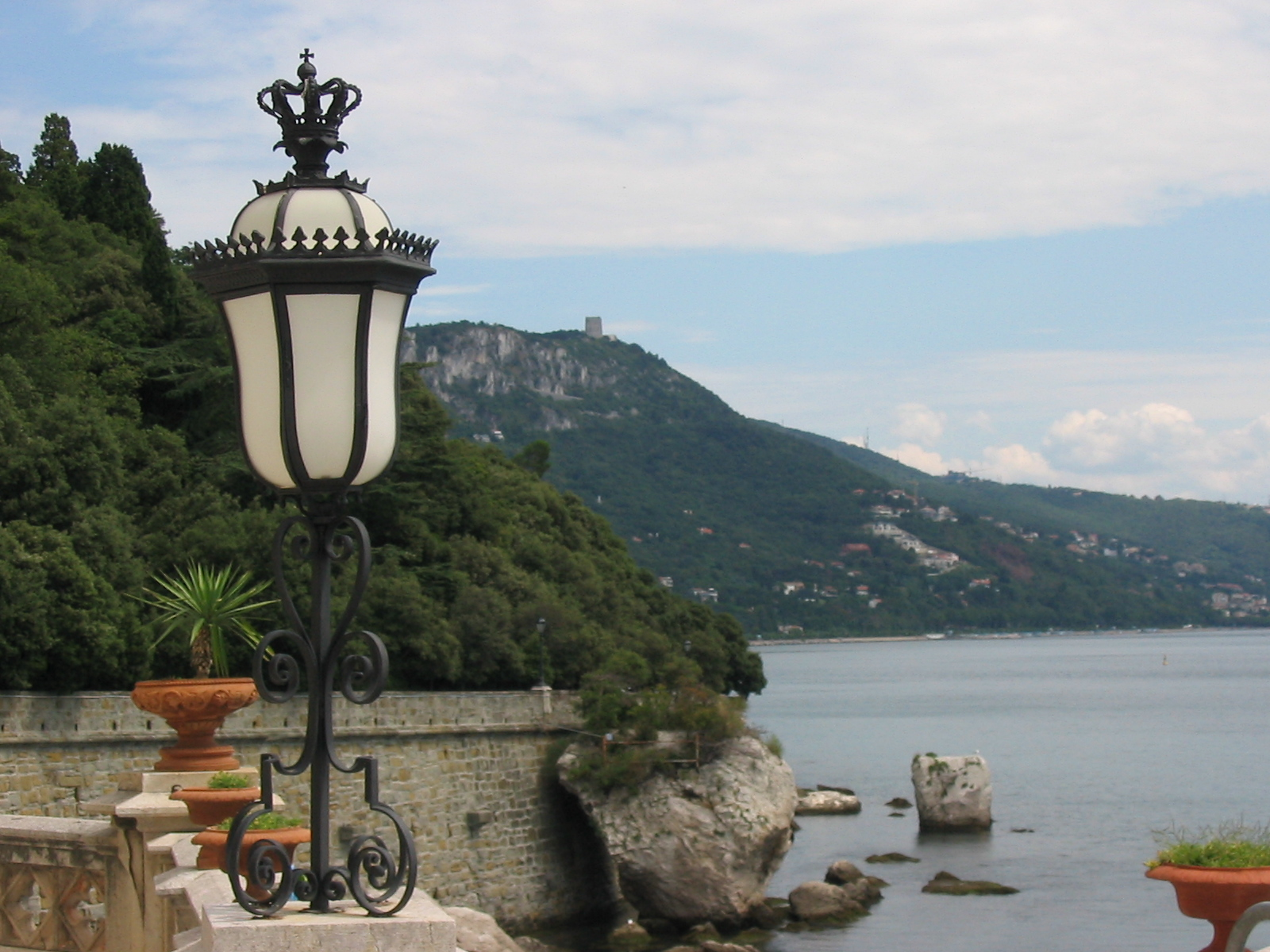 View of Triest from Miramare Castle.